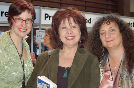 Left to right: American fantasy writer Delia Sherman, American science fiction writer Nancy Kress, and American editor Ellen Datlow.